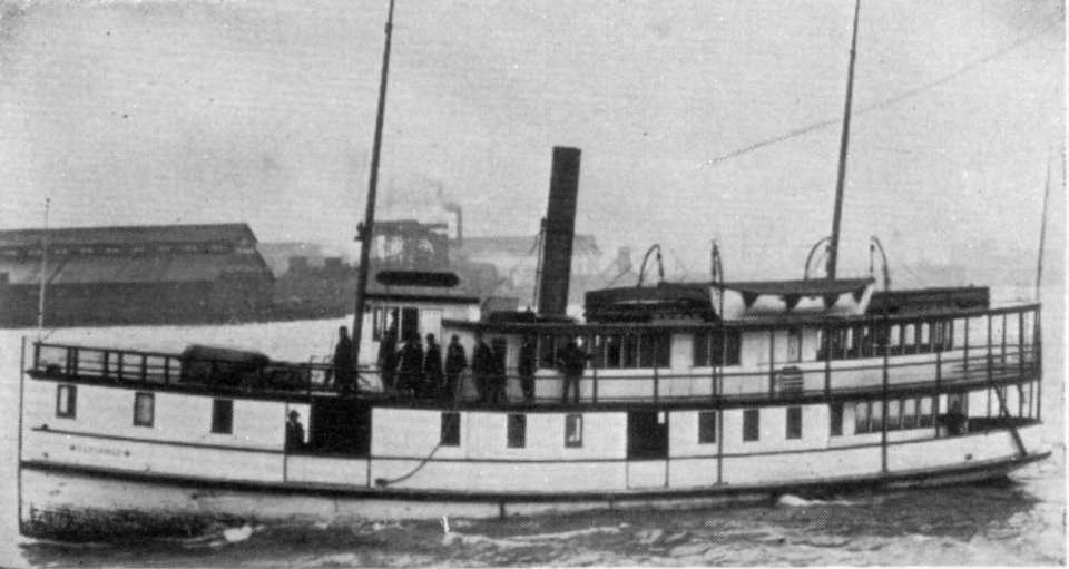 Steamboat Defiance, built 1901, later known as Kingston. Converted to diesel power later, lost in Alaska 1934.